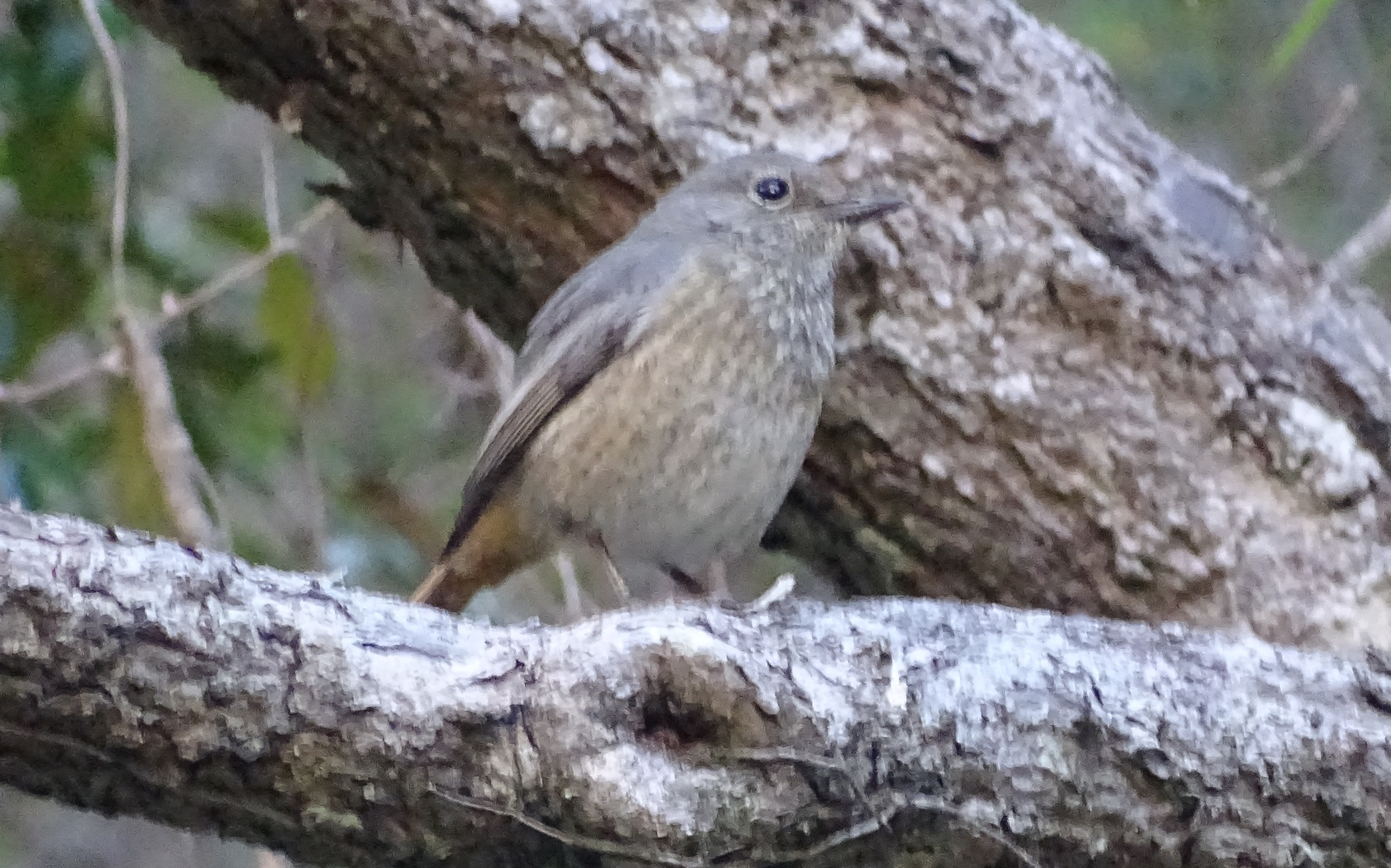 Benson’s rock thrush (female)